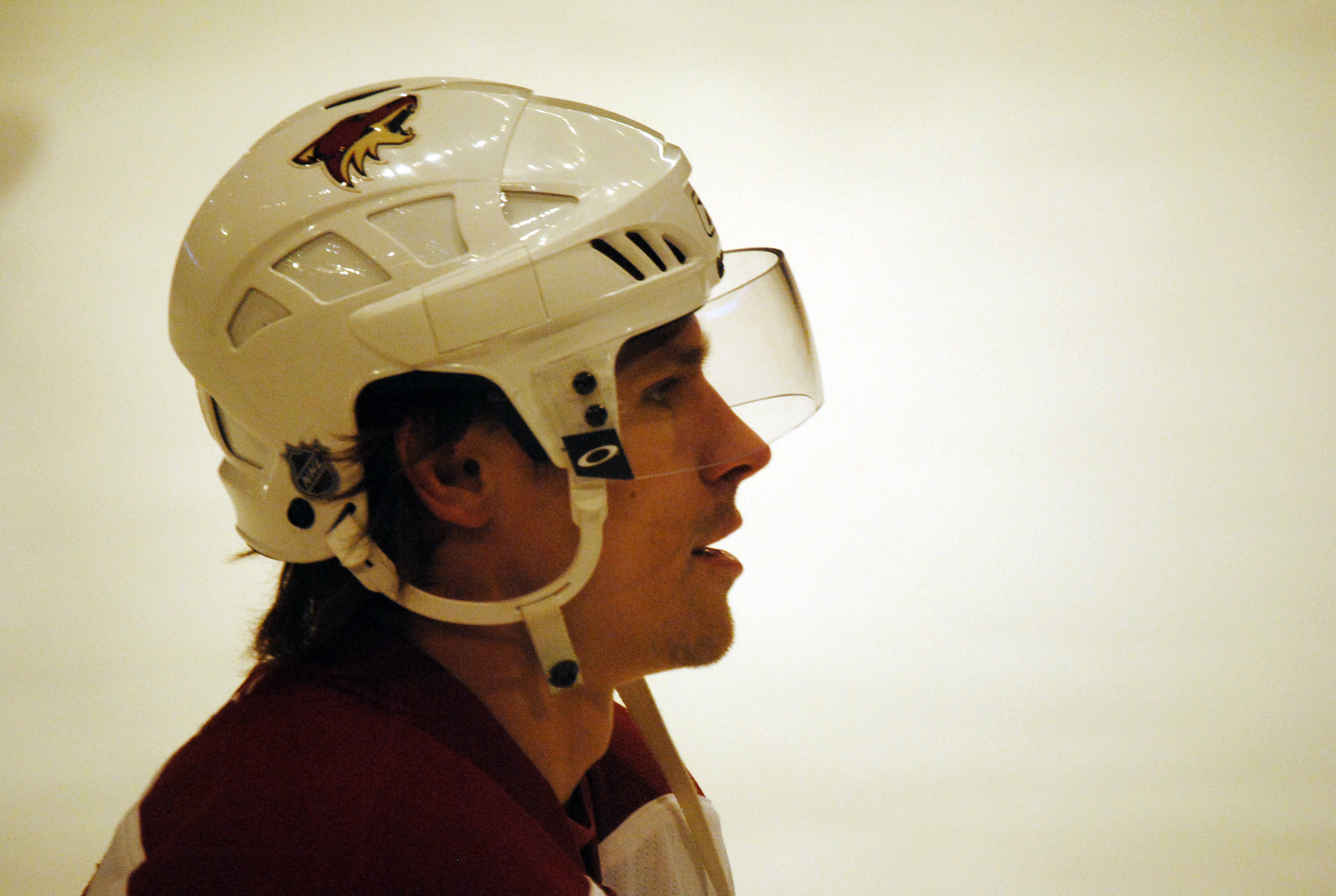 Petr Prucha during warmups for a game between the New York Rangers and the Phoenix Coyotes